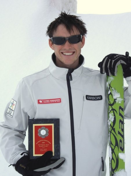 Picture of Aerial Skier David Morris